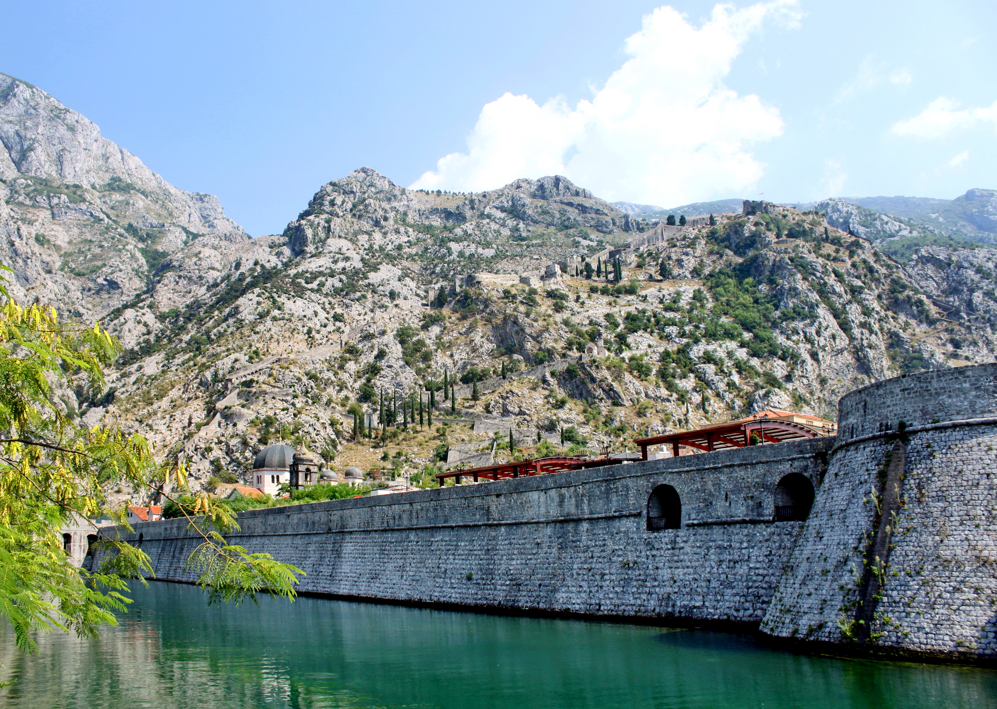 The northern part of the city walls by the river Škurda. Kotor, Montenegro.